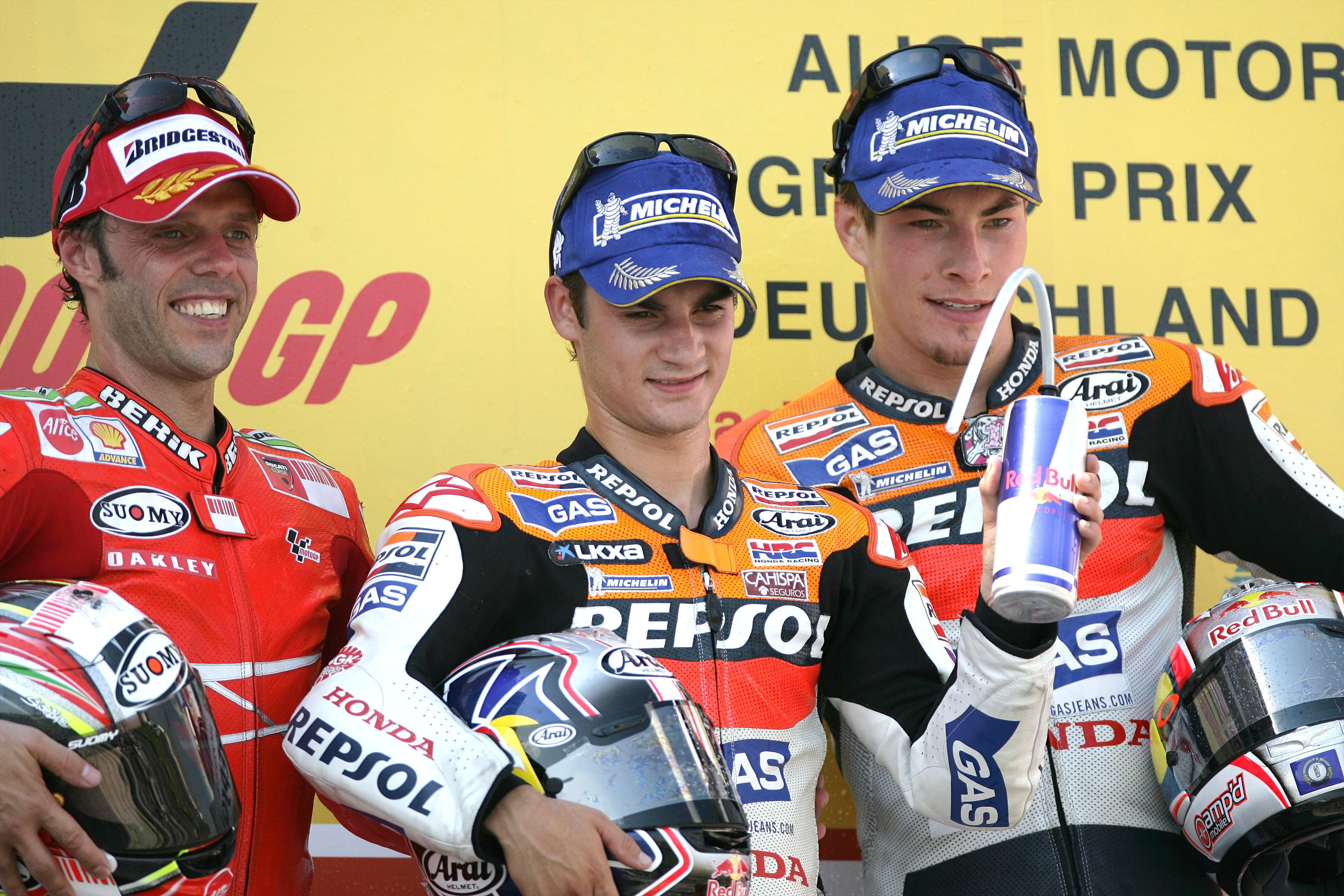 Loris Capirossi, Dani Pedrosa and Nicky Hayden, posing for photo's on the podium after finishing in second, first and third place at the 2007 German Grand Prix.